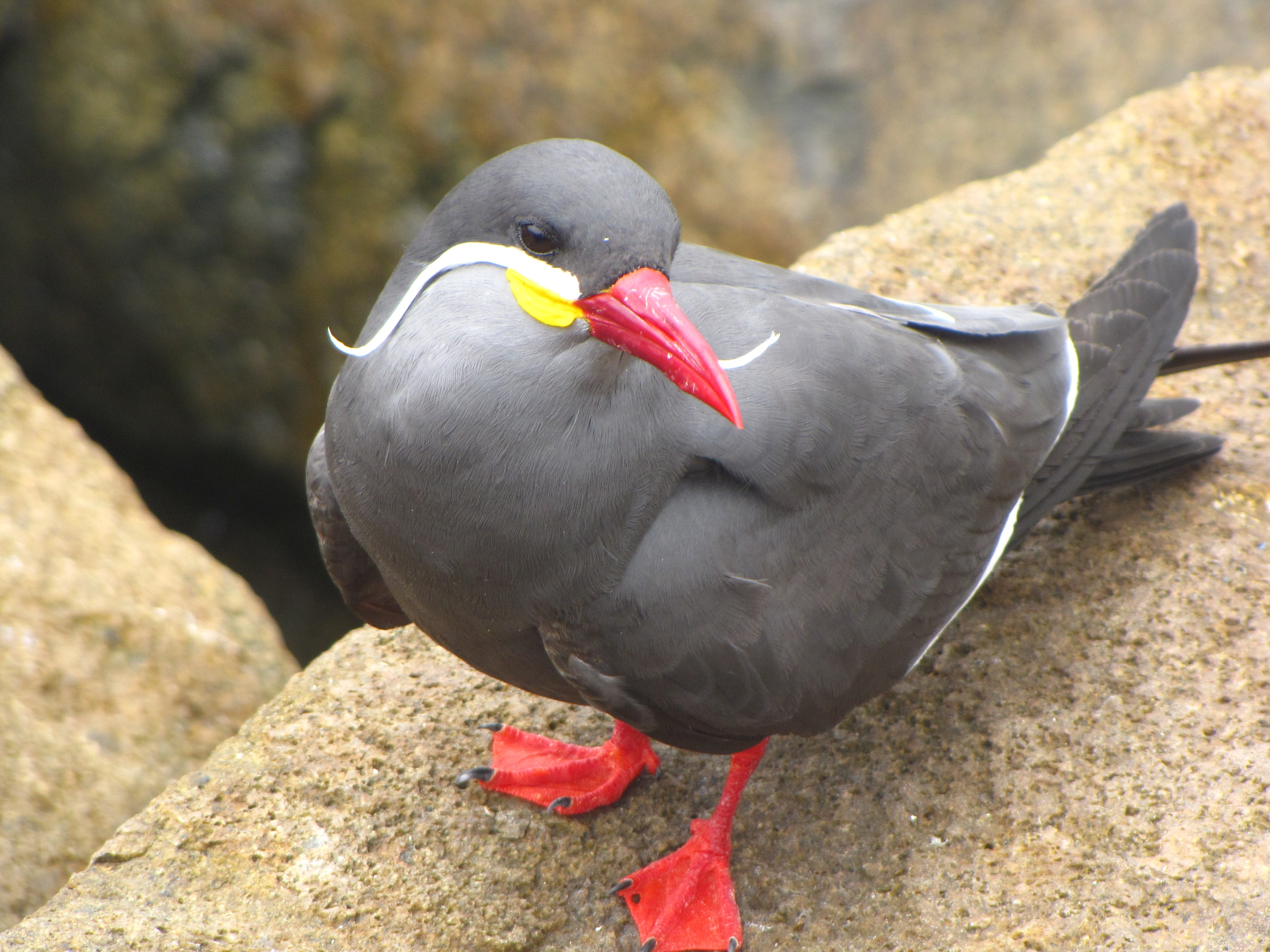 An adult Inca Tern in Lima, Peru.